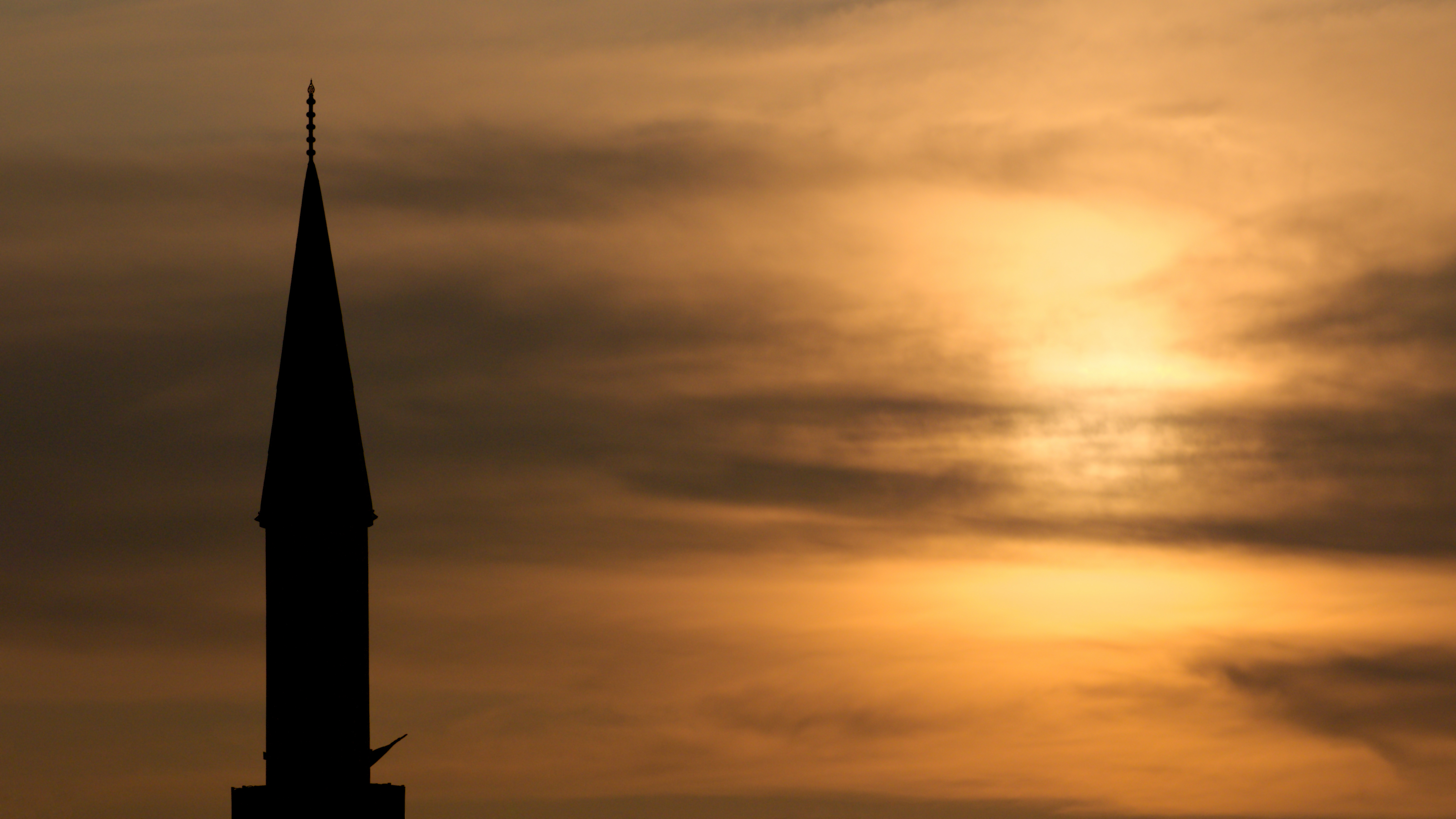 Silhouette of Ferhat-Pasha Mosque, Banja Luka, Republika Srpska Српски (ћирилица): Силуета Ферхадије на заласку сунца, Бања Лука, Република Српска Ферхад-пашина (Ферхадија) џамија, са Ферхад-пашиним турбетом, турбетом Сафи-кадуне, турбетом пашиних барјактара, шадрваном, харемом, оградним зидовима и порталом, Бања Лука ID добра: NKD138 This image was uploaded as part of Trace of Soul 2017. This photograph was taken with a Panasonic Lumix DMC-G85/G80.